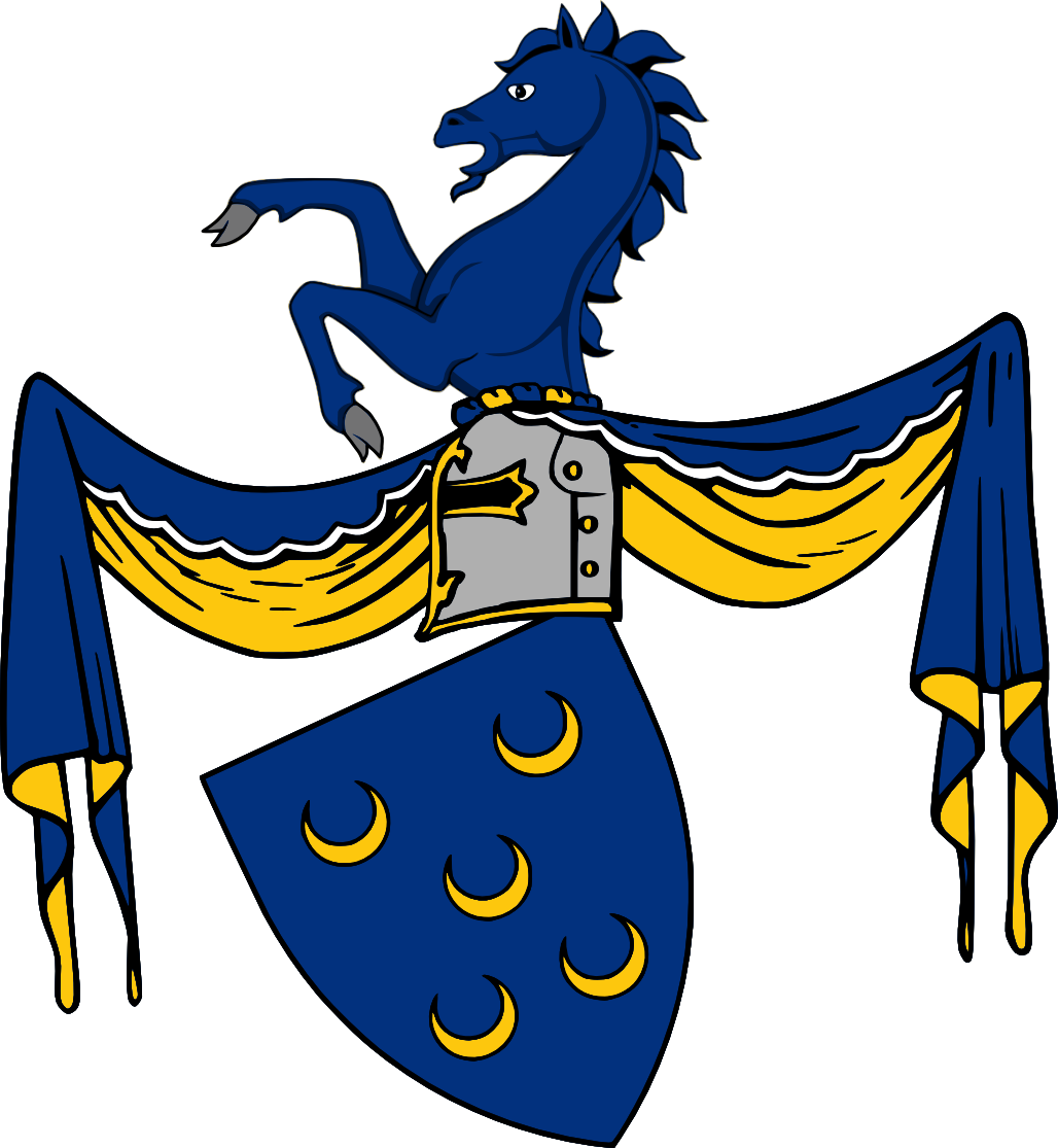 Coat of Arms of the Mirilović family (version 1).